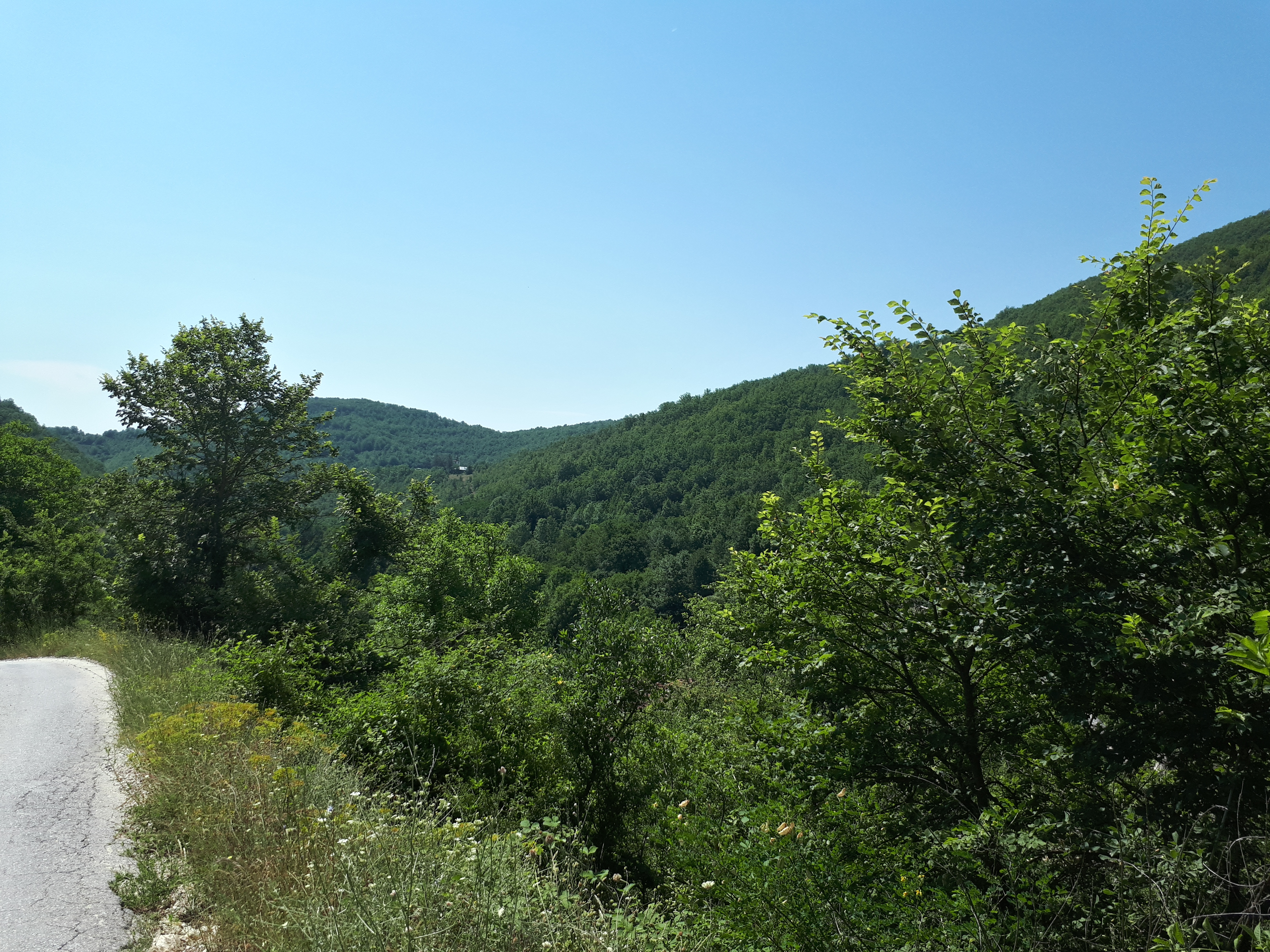 Church in the village Slatina, Makedonski Brod